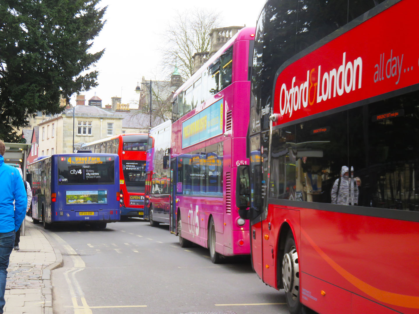 Oxford buses, St Aldates, Oxford